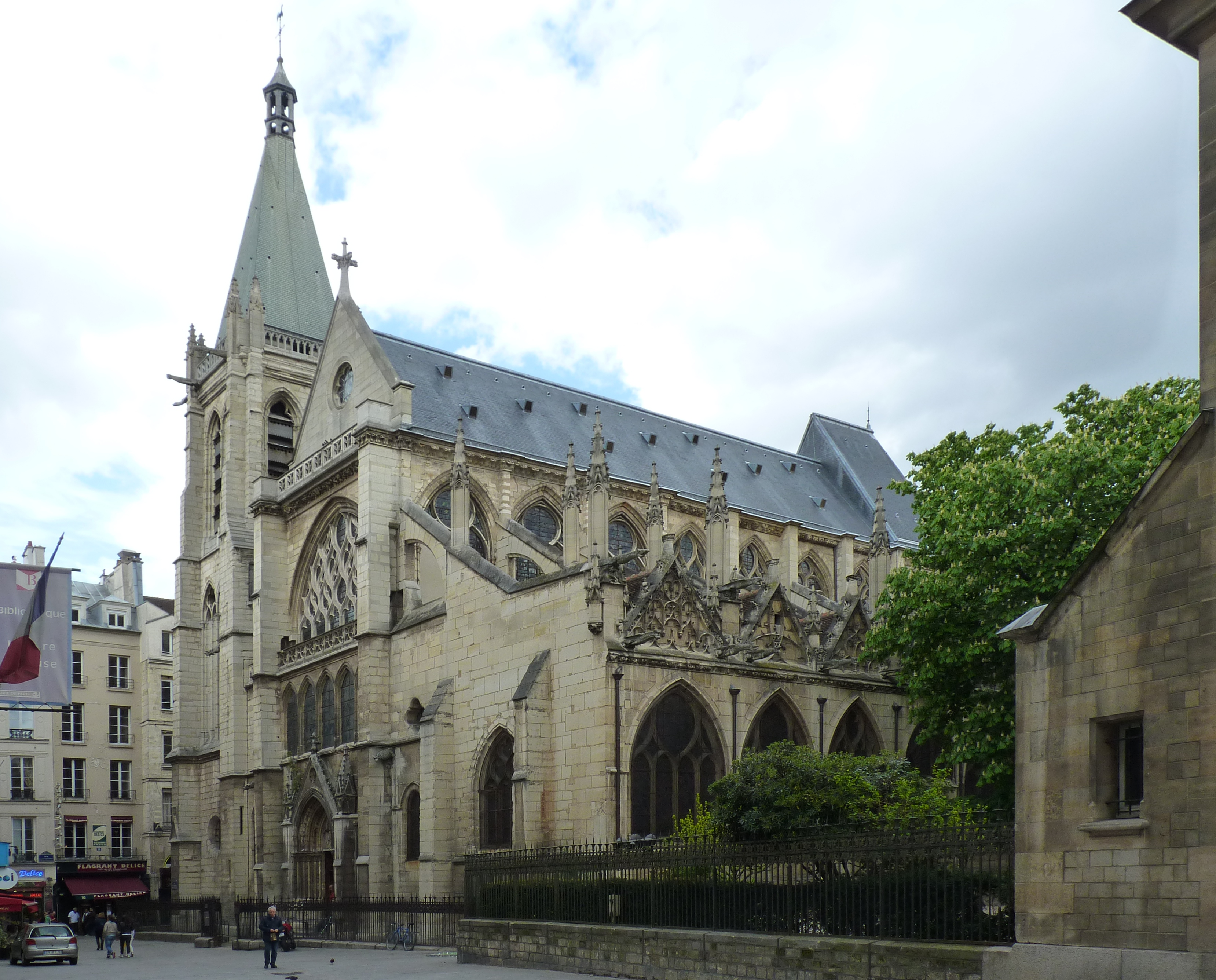 St. Severin Church, Paris.